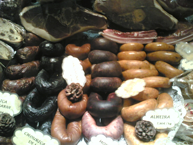 Portuguese sausages: chouriças, farinheiras, morcelas and alheiras, below. Presunto (cured ham), on top.